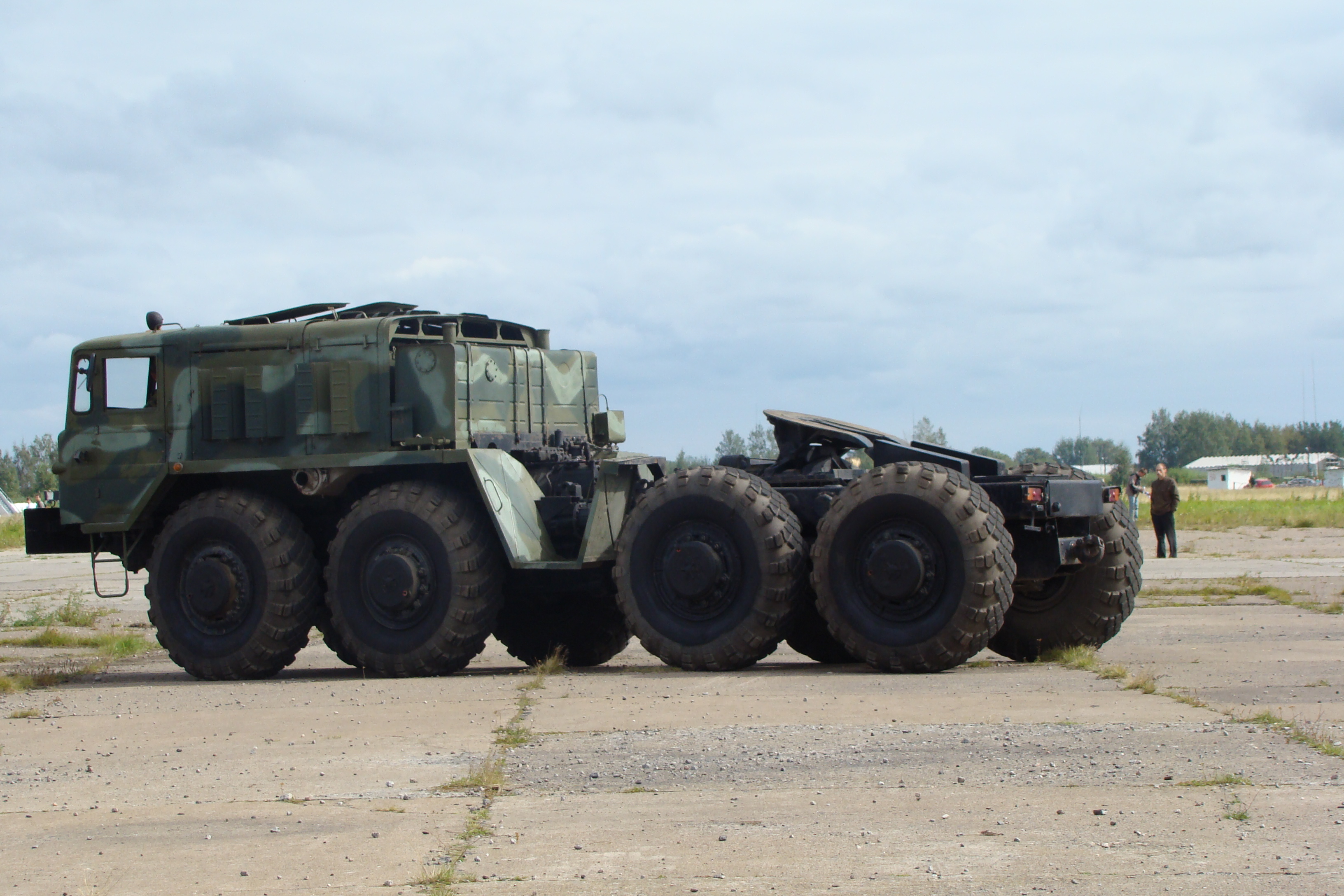 MAZ-537